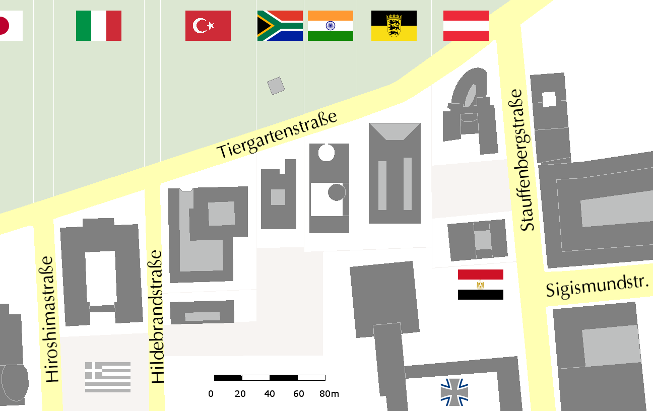 Map of embassies at the East end of Tiergartenstraße in Berlin. Top row, from left (West) to right (East): Japanese embassy (partly shown) Italian embassy Turkish embassy South african embassy Indian embassy Office of the State of Baden-Württemberg Austrian embassy In the Stauffenbergstraße, from top (North) to bottom (South): Egyptian embassy Bendlerblock (Headquarter of the Bundeswehr)